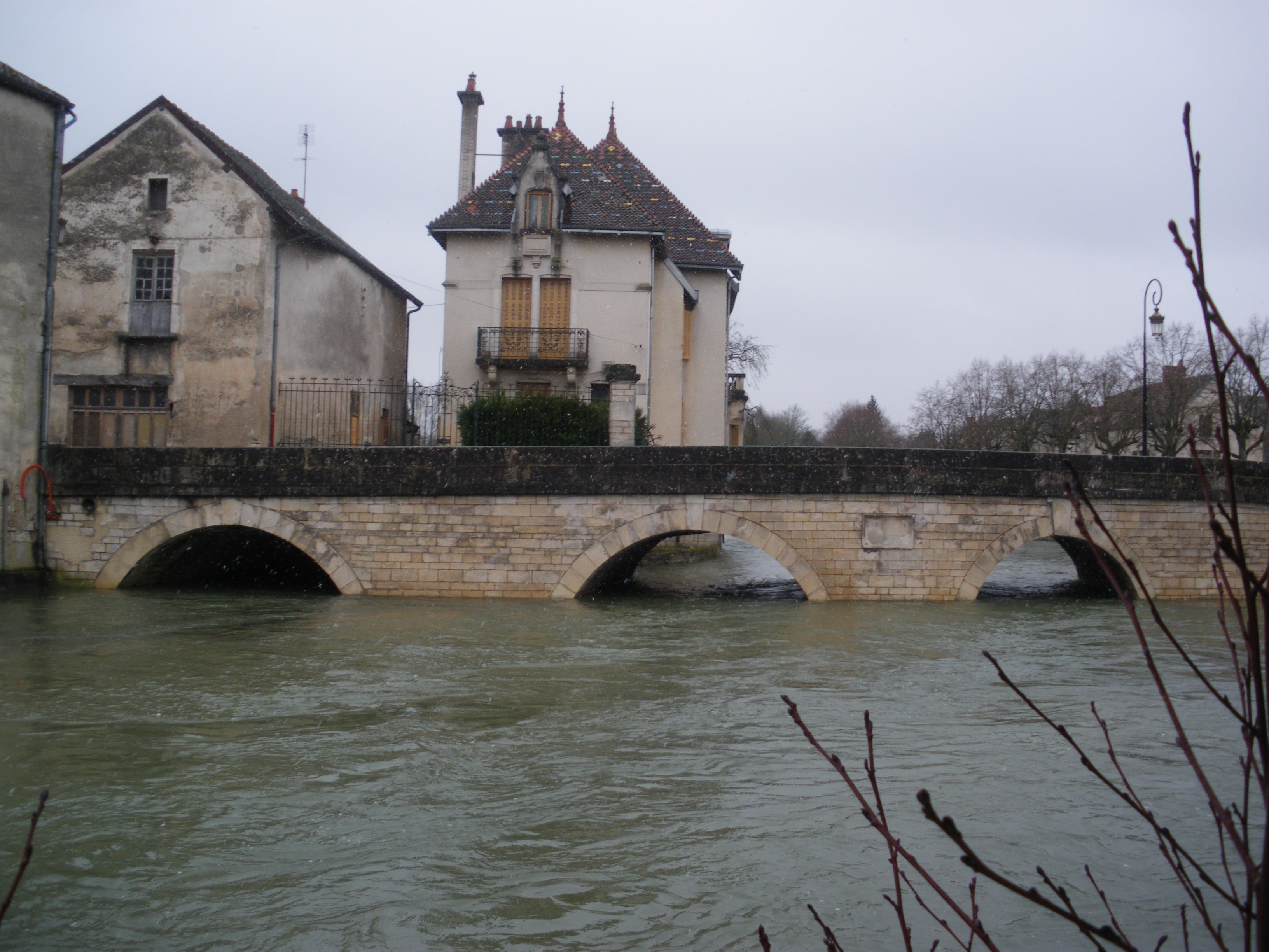 Ignon River in Is sur Tille, Burgundy, France